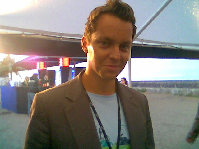 Tuomas Kallio, Finnish musician, producer, and the artistic director of the Flow Festival, and the Pori Jazz festival.